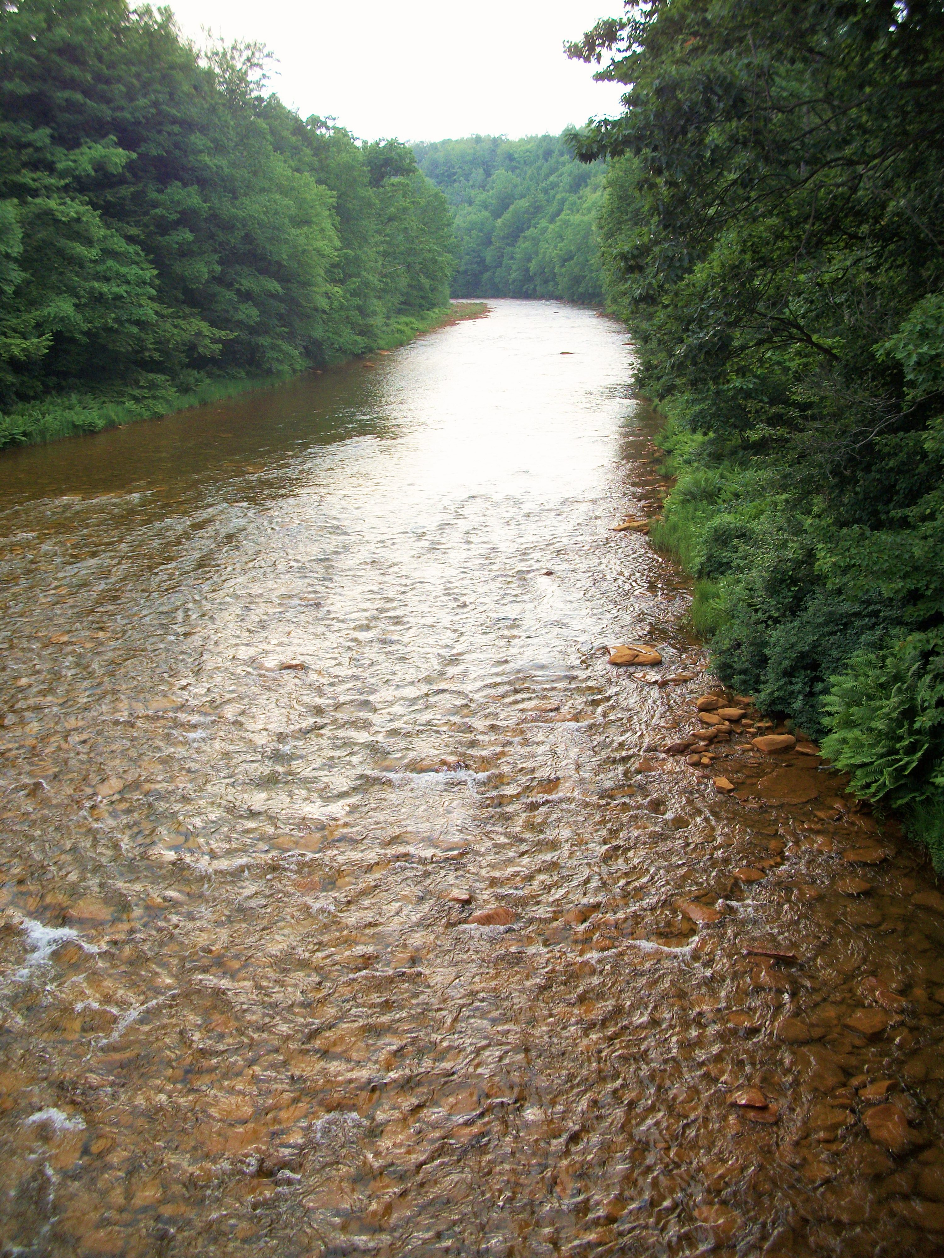 The Red Moshannon River near Grassflat, PA